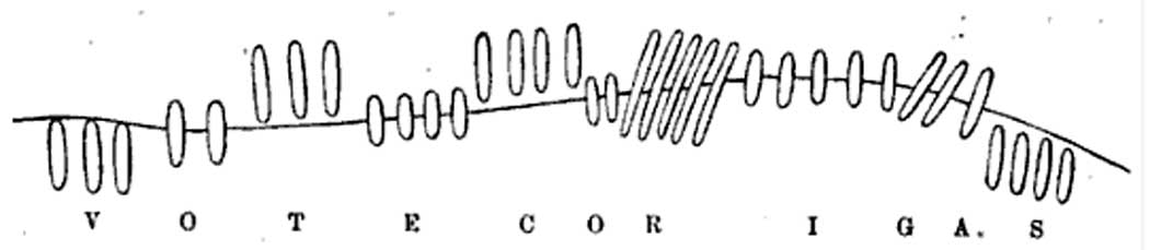 Ogham inscription VOTECORIGAS on the Ogham stone CIIC 358 (photo), found in Castell Dwyran, County of Carmarthenshire, Wales – from about 550 AD. Detailed description of the Castell Dwyran Stone:The Ogham Stones of Wales